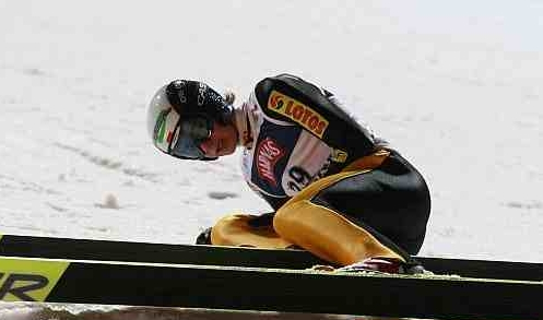 Kamil Stoch after his poor jump in saturday competition of FIS Ski Jumping World Cup in Zakopane 2007